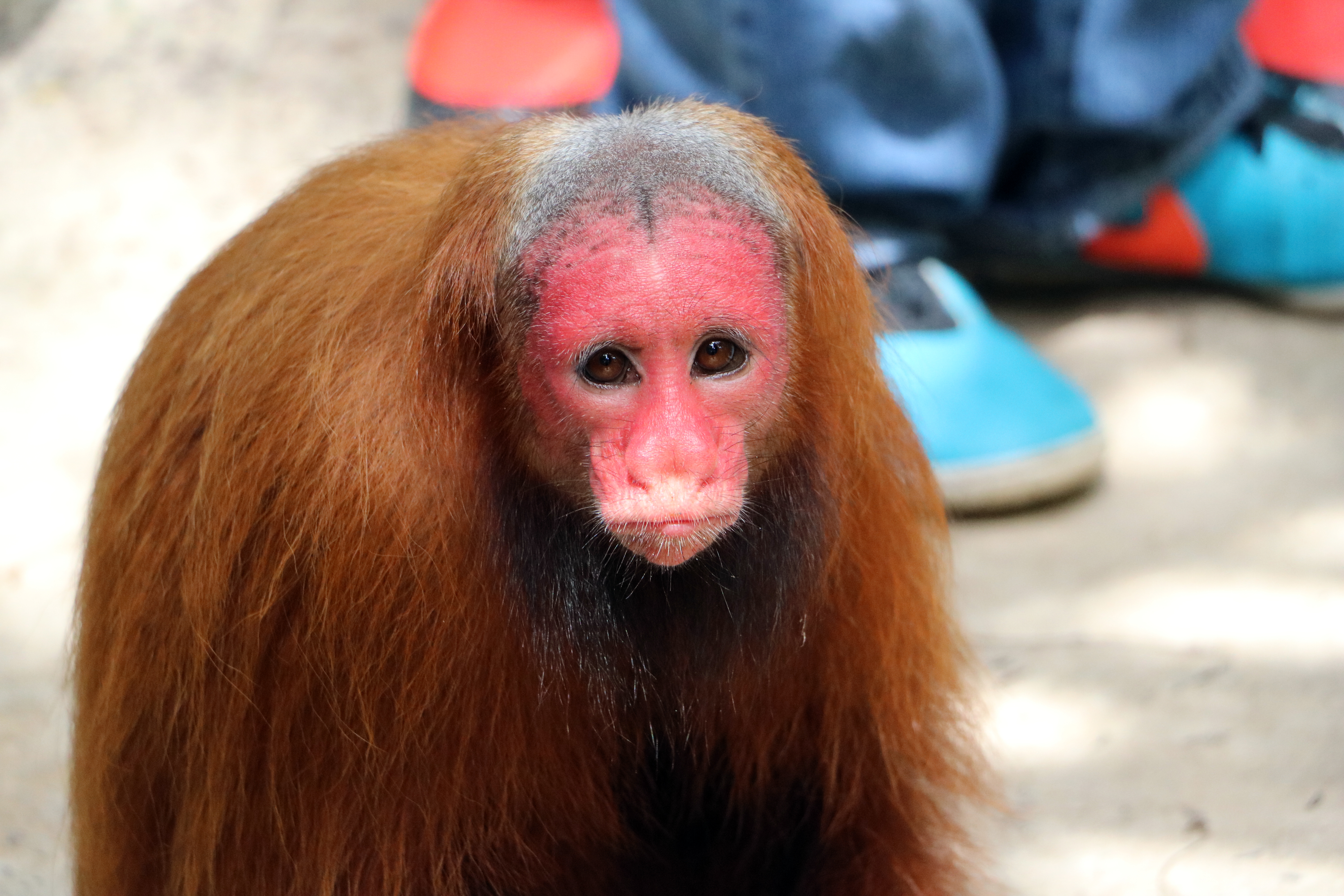 A rescued animal in a Peruvian facility.